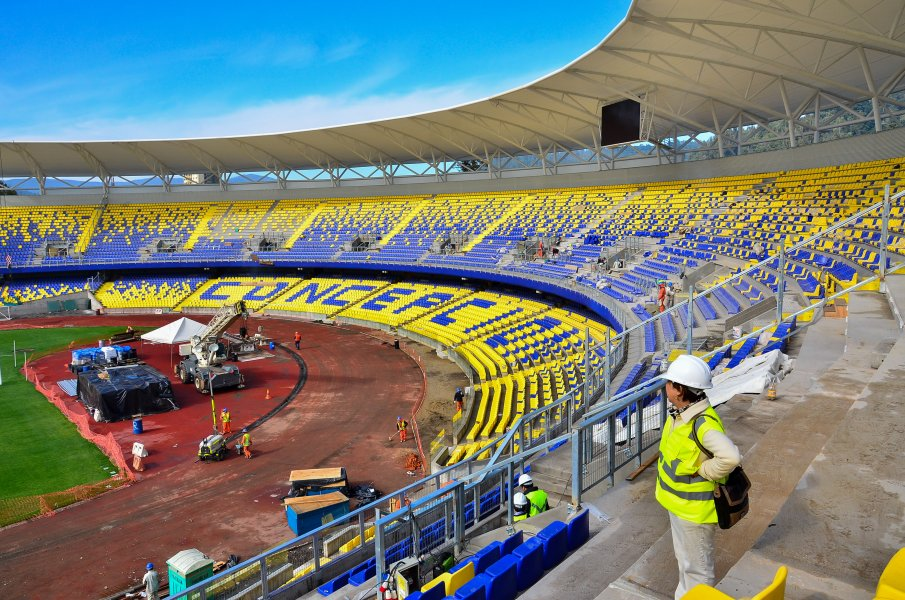 remodelación estadio collao